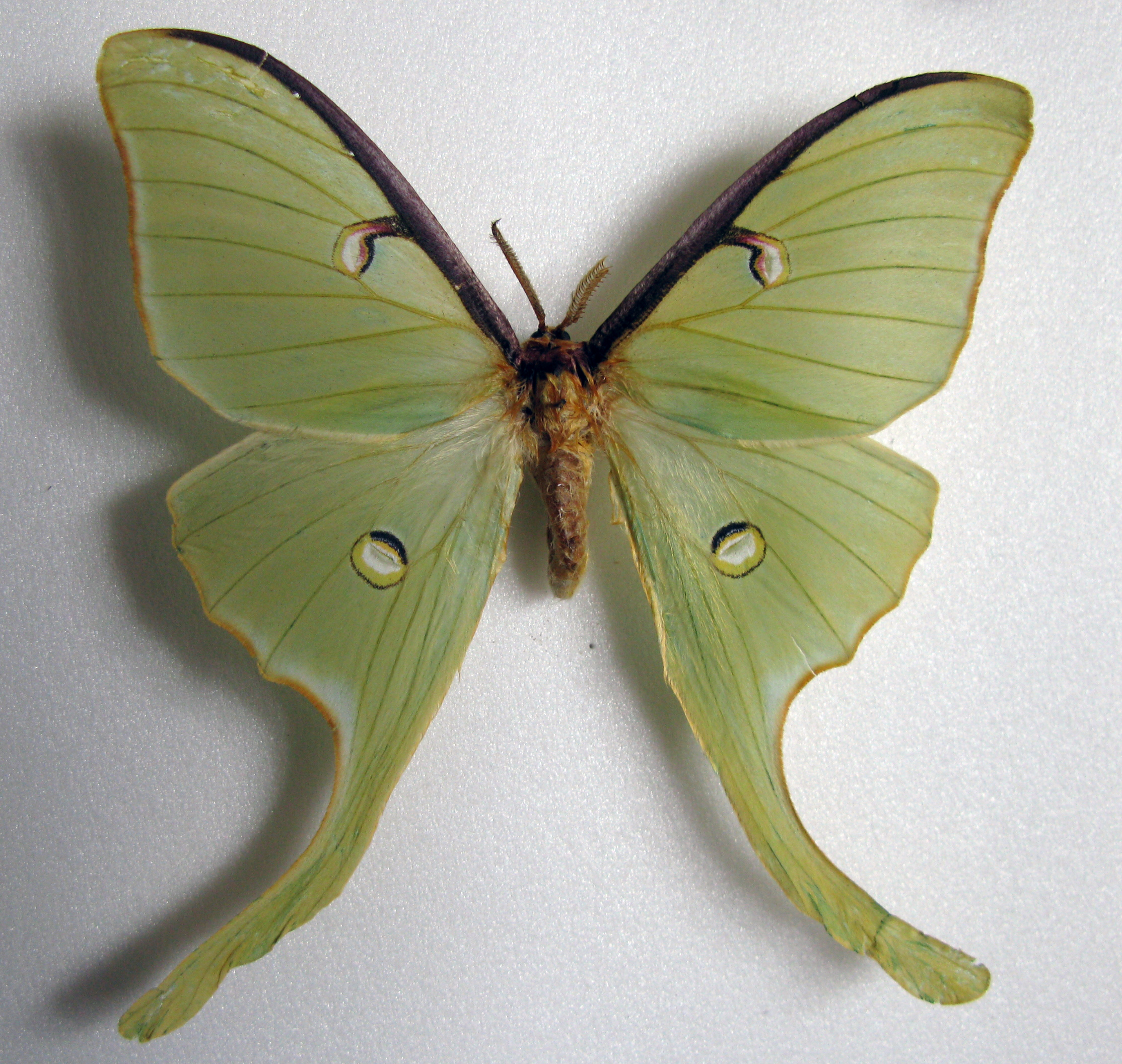 Actias luna